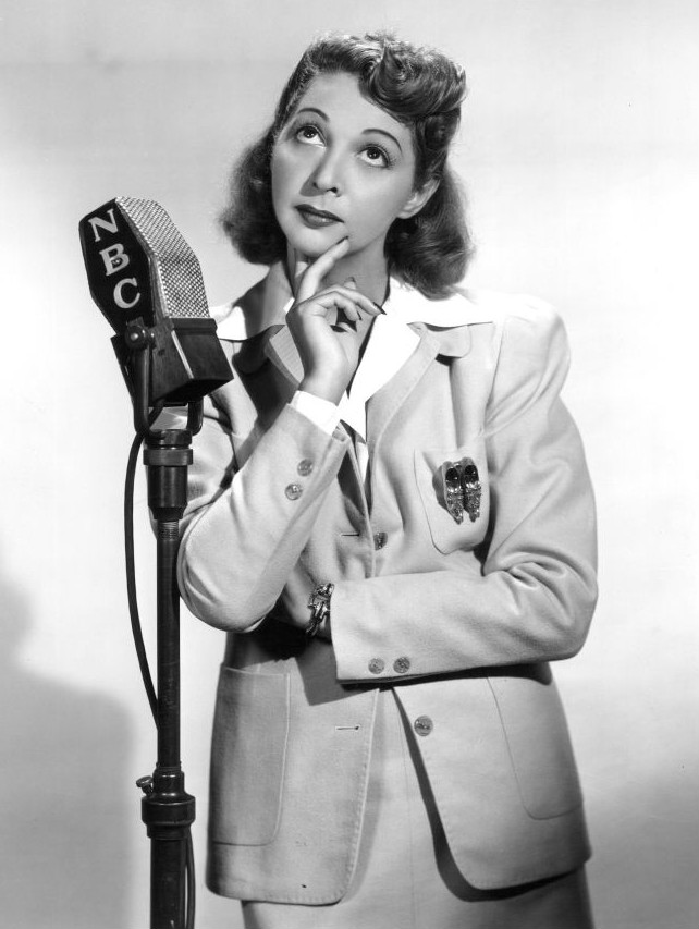 Publicity photo of Mary Livingstone from The Jack Benny Program.